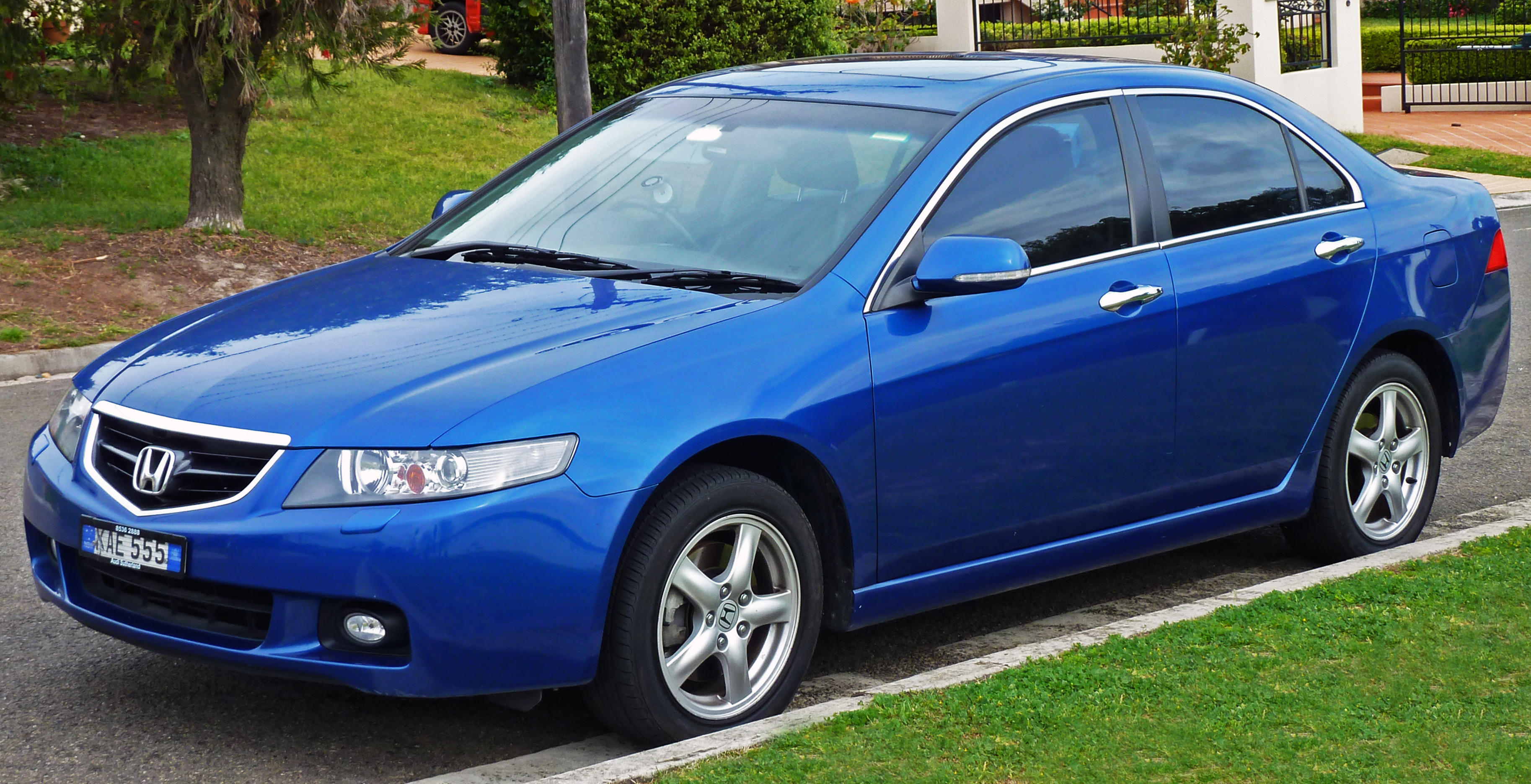 2003–2005 Honda Accord Euro Luxury sedan. Photographed in Taren Point, New South Wales, Australia.